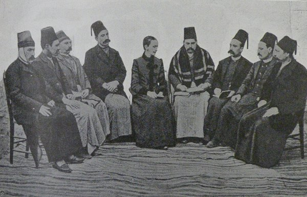 Miss Corinna Shattuck, head of the American mission in Urfa and Armenian local notables